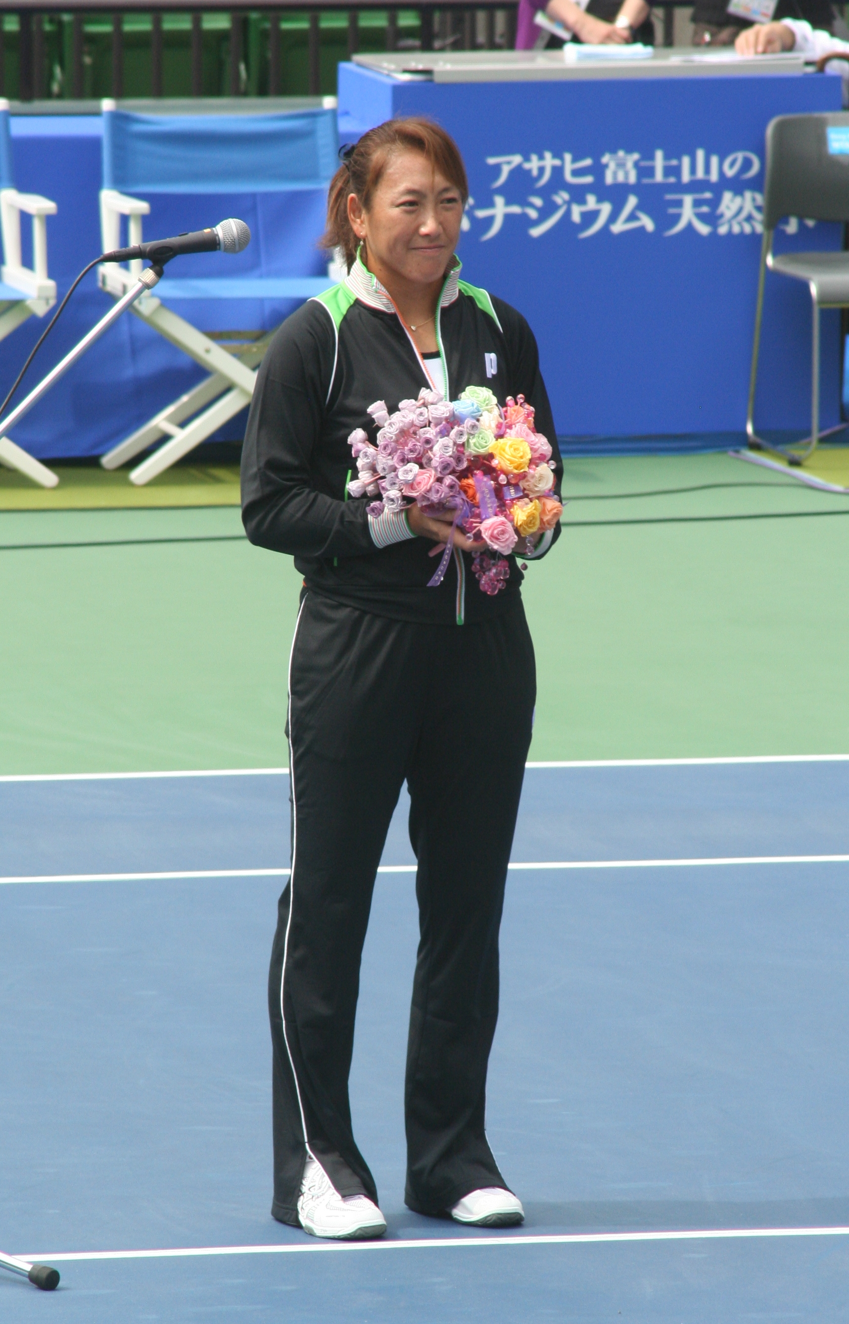 Ai Sugiyama during her retirement ceremony on the opening day of the Toray Pan Pacific Open 2009 in Tokyo.